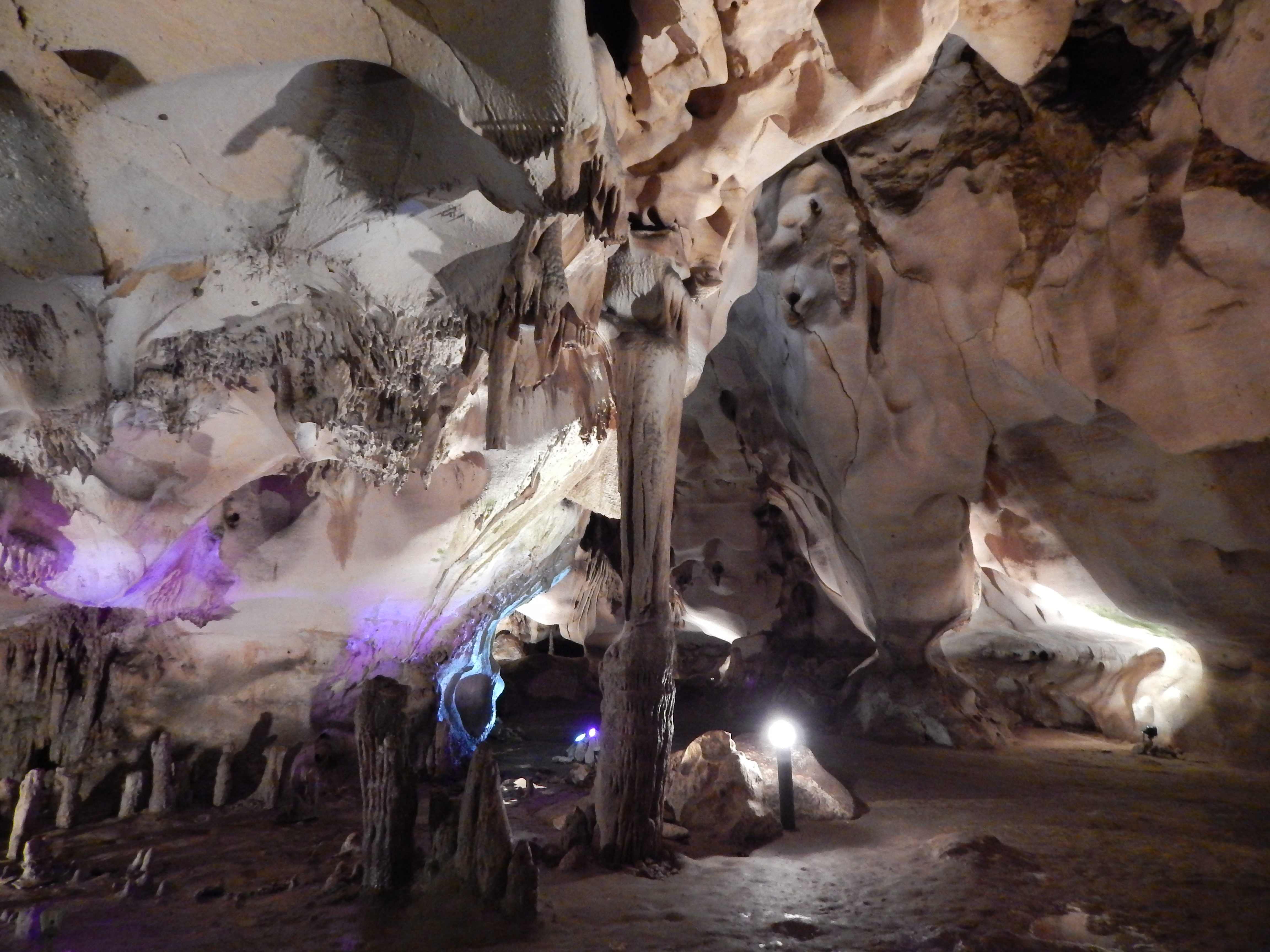 View from the Orlova Chuka cave in Rusenski Lom Nature Park